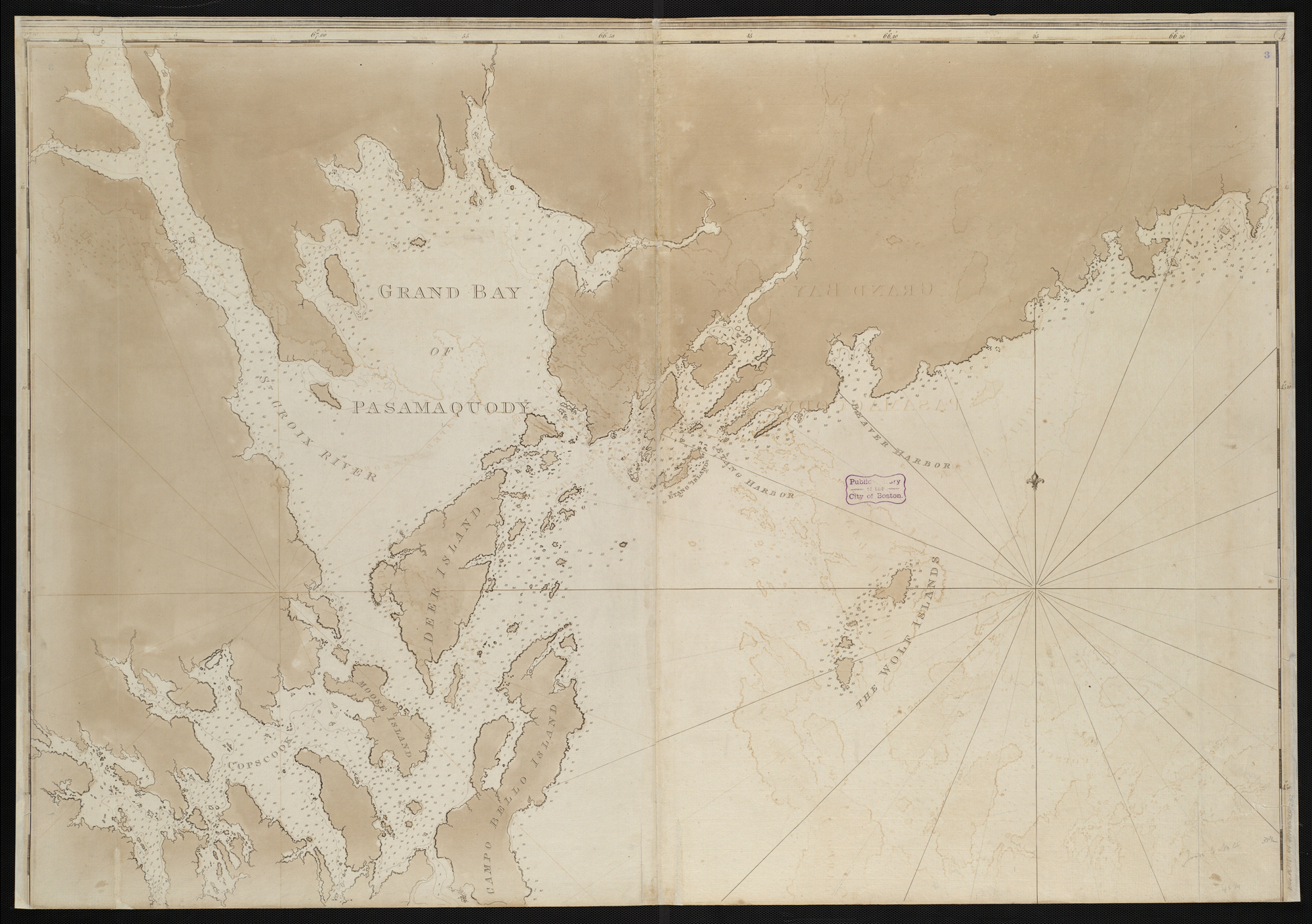 Zoom into this map at . Author: Des Barres, Joseph F.W. Publisher: Des Barres, Joseph F.W. Date: 1781 Location: Maine, New Brunswick, New England Dimension 81x116cm Scale: Scale not given Call Number: G1106.P5 1781 .D4